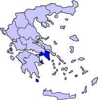 Location of Attica in Greece